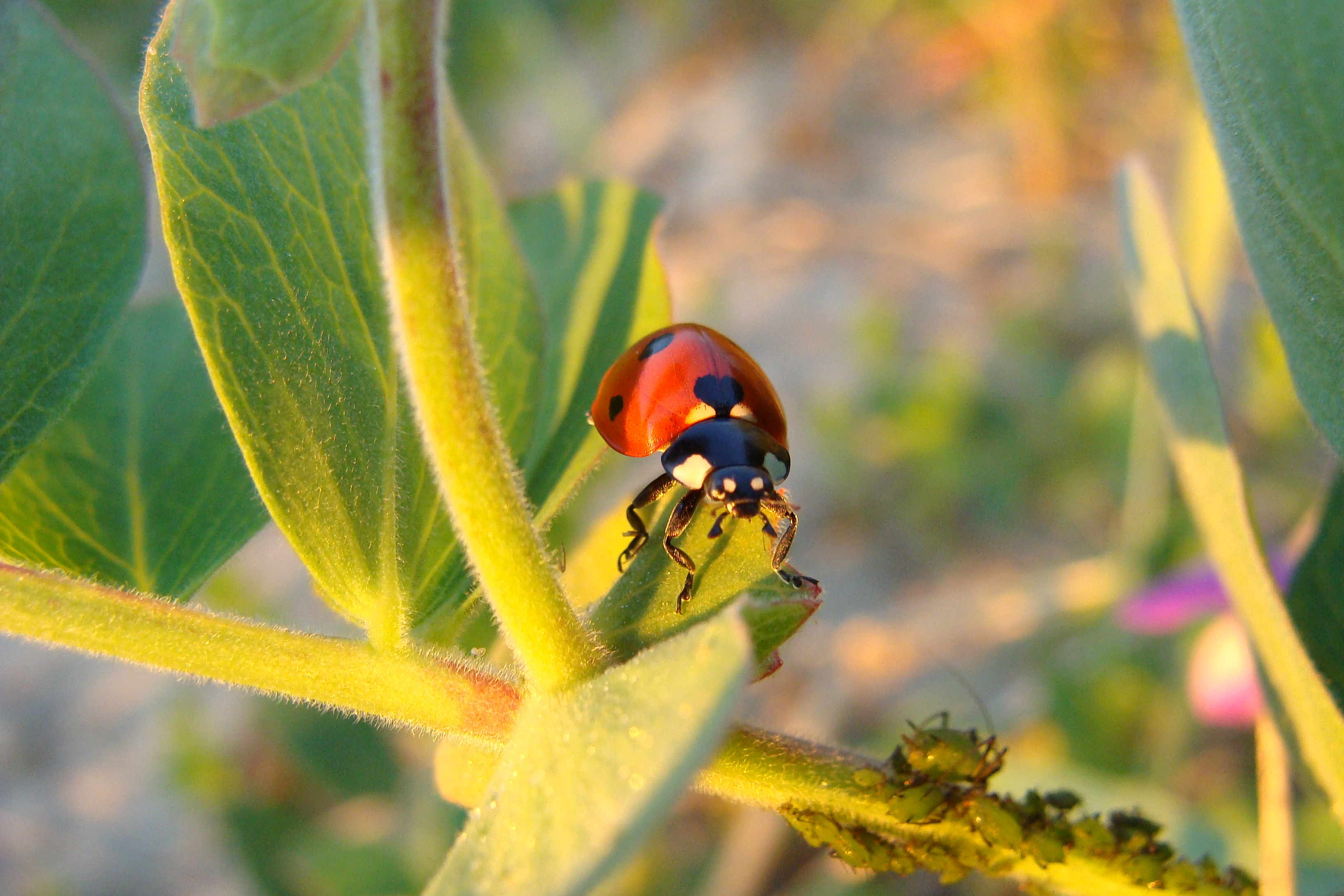 Coccinellidae (Russia)